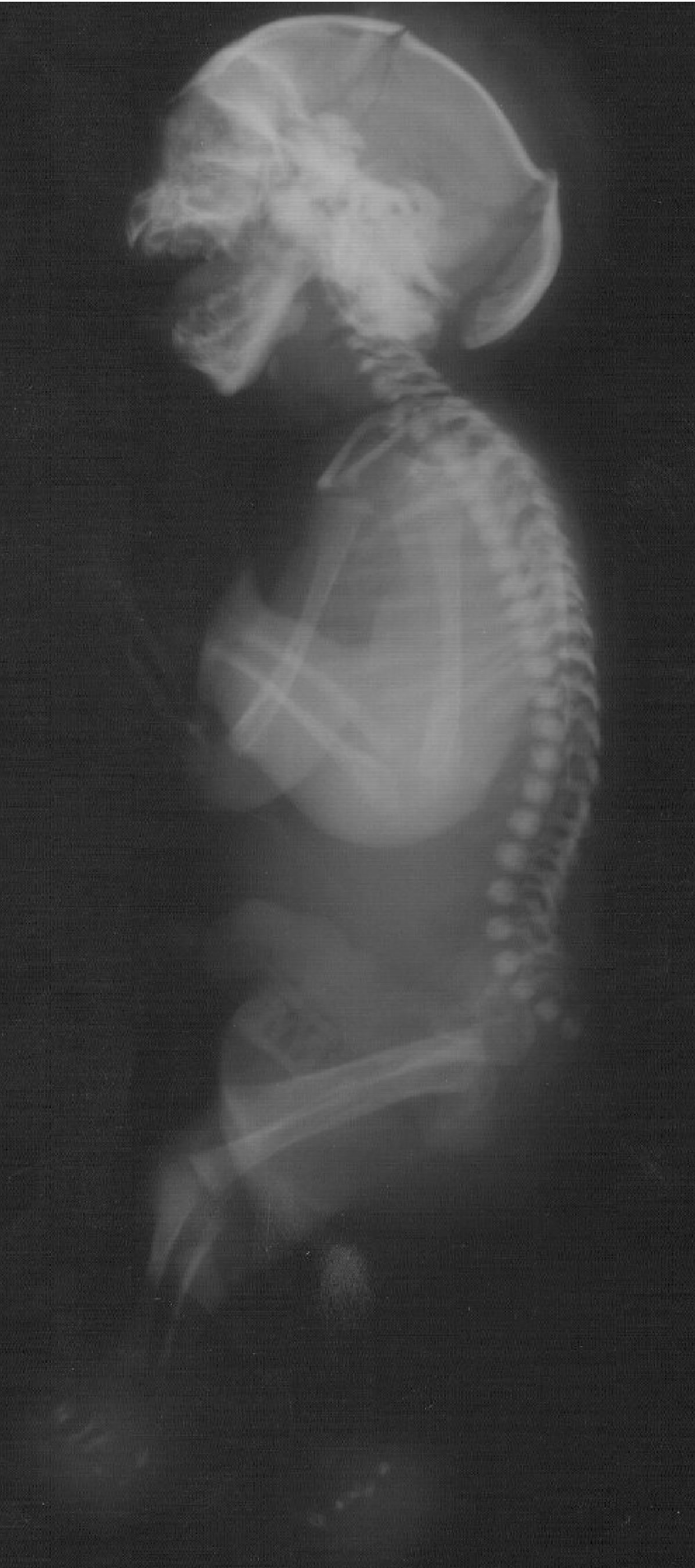 X-ray film of the newborn diagnosed with Neu-Laxova syndrome.